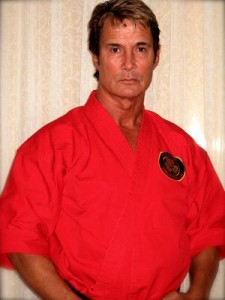 2014 Inductee Richard Norton